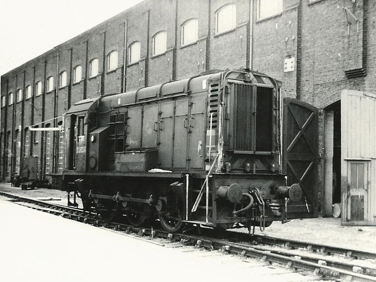 Preserved BR/Blackstone (later Class "10") 350 hp 0-6-0 shunter No.D3634 (never renumbered in "10" series) in BR green at Stratford MPD, 07/67. Scanned photograph taken with a Kowa SET camera.